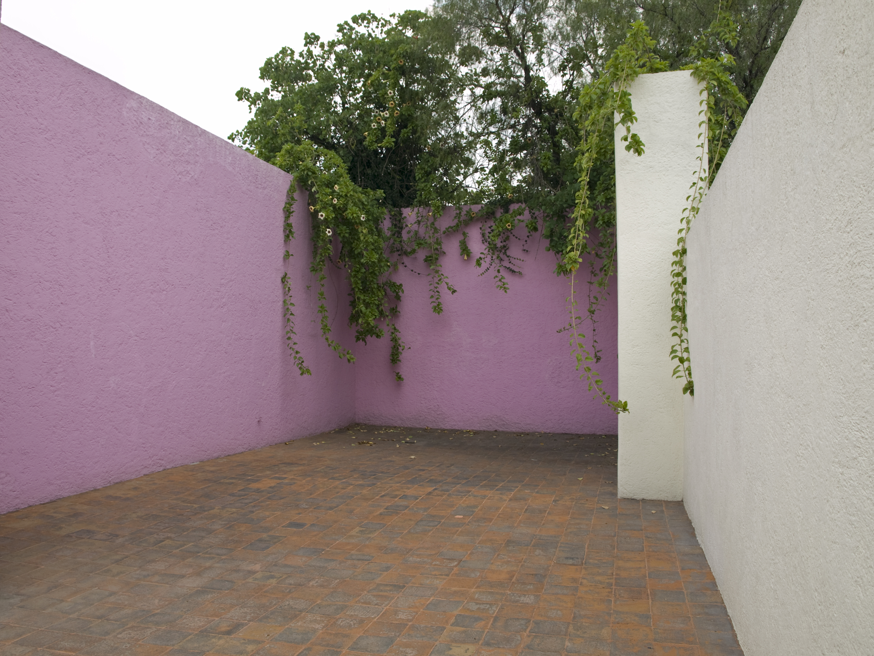 Luis Barragán House and Studio, the roof patio